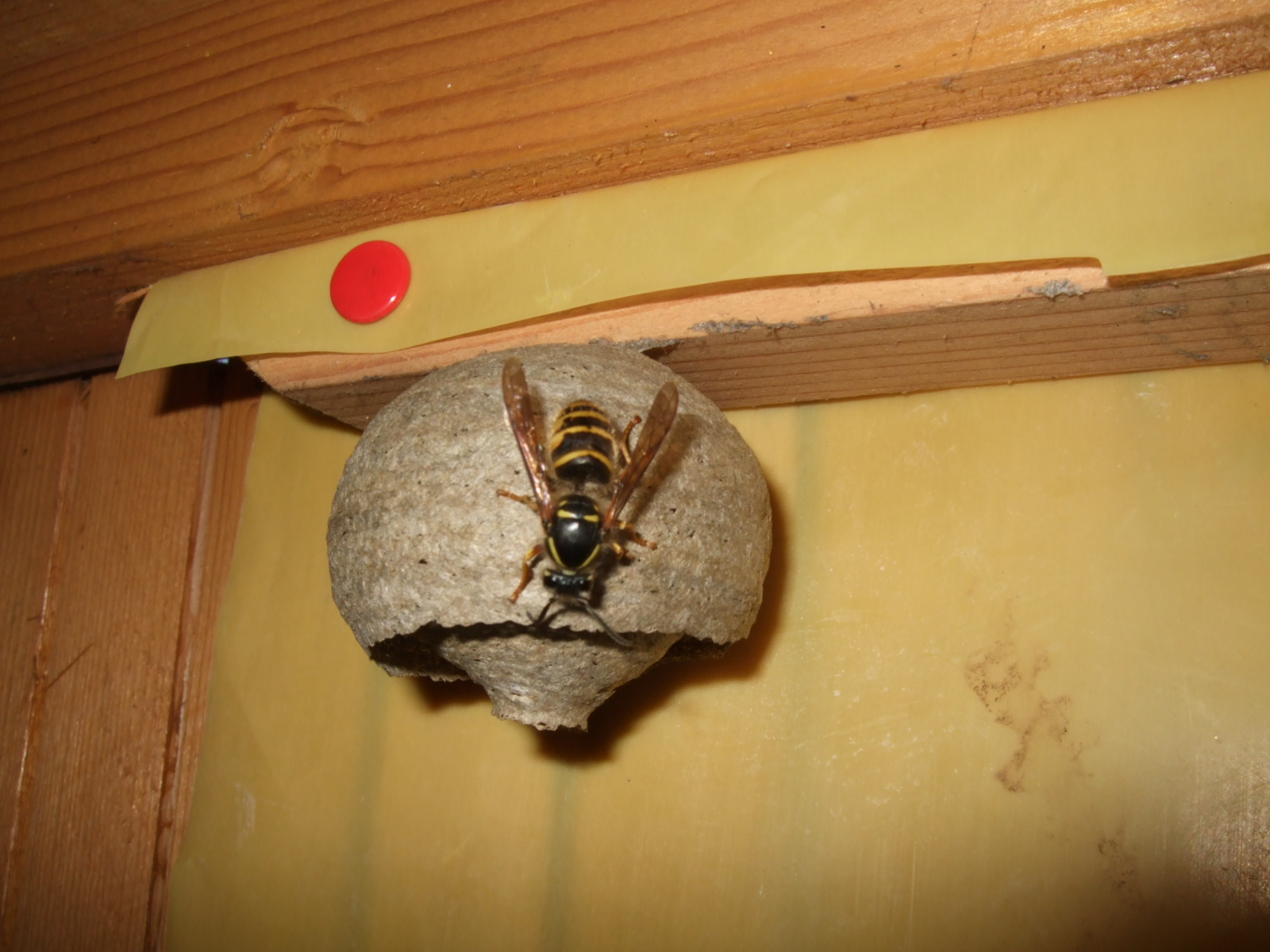 Dolichovespula saxonia queen in April on her 4 days old nest